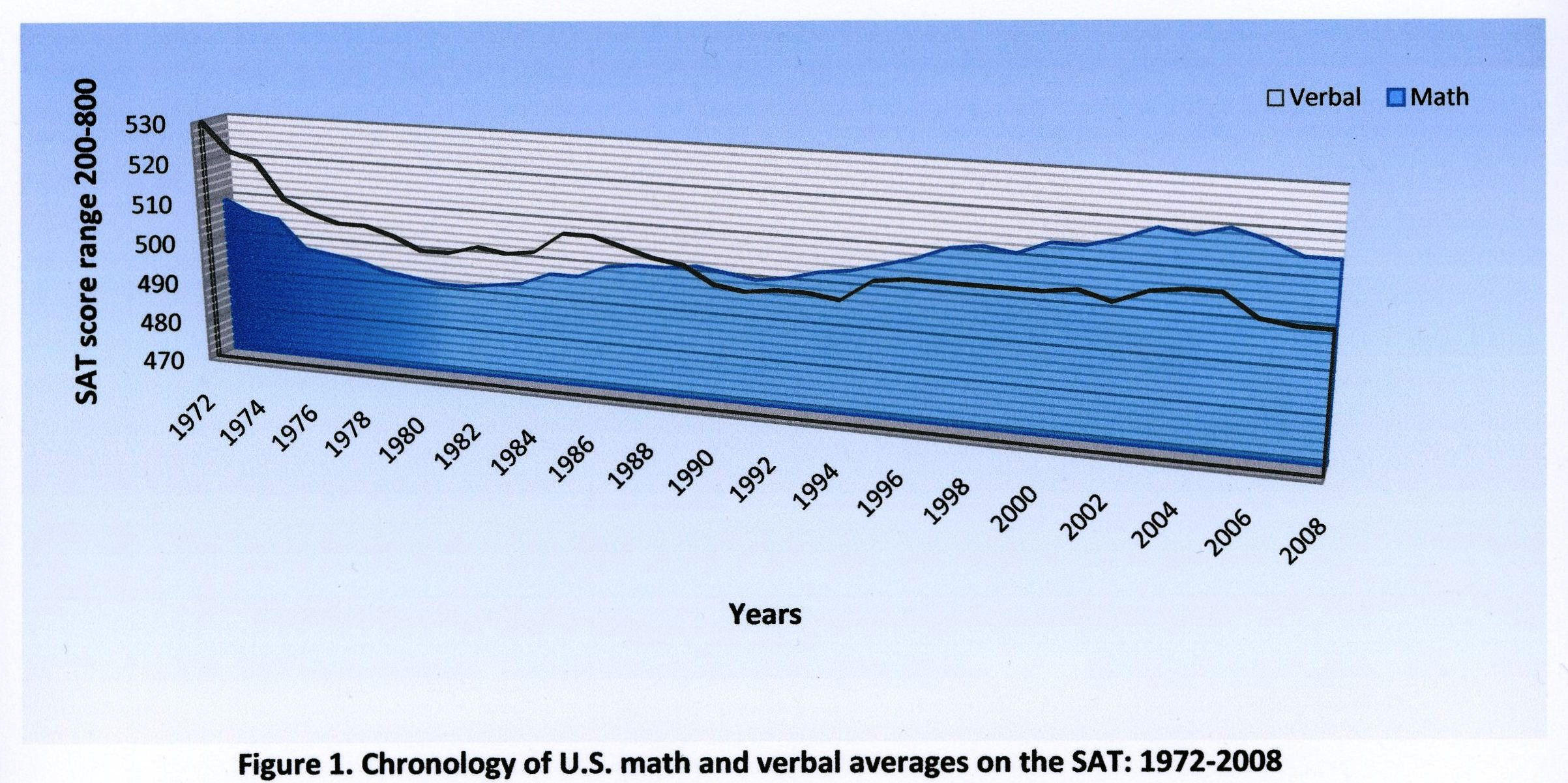 This chart graphs the chronology of U.S. math and verbal averages on the SAT from the year 1972 to 2008.